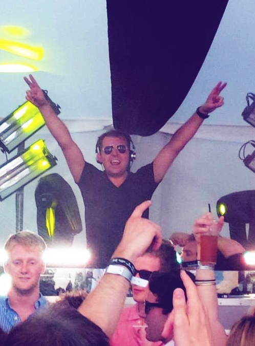 Paul Rudd, at work